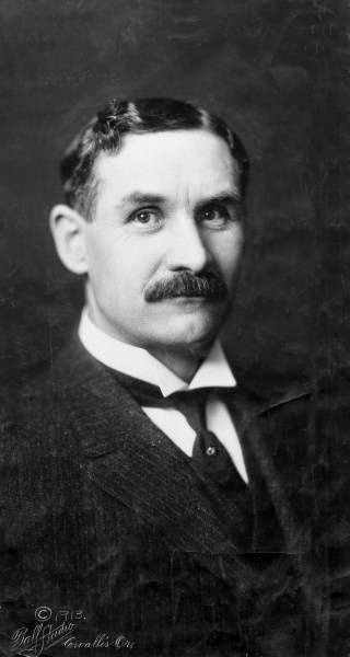 William Jasper Kerr was the President of Oregon State College from 1907-1932.